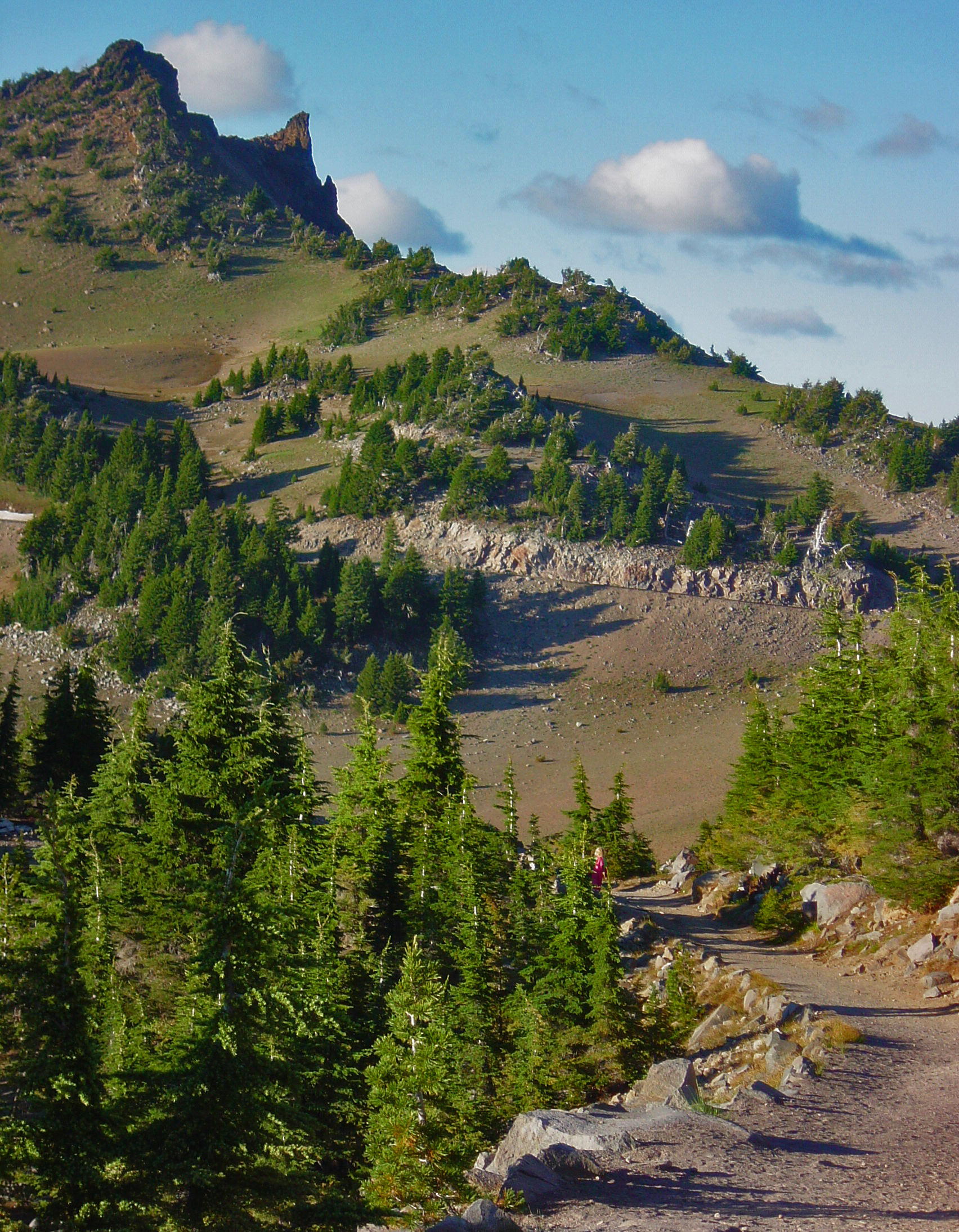 Watchman Peak Trail, Crater Lake National Park.